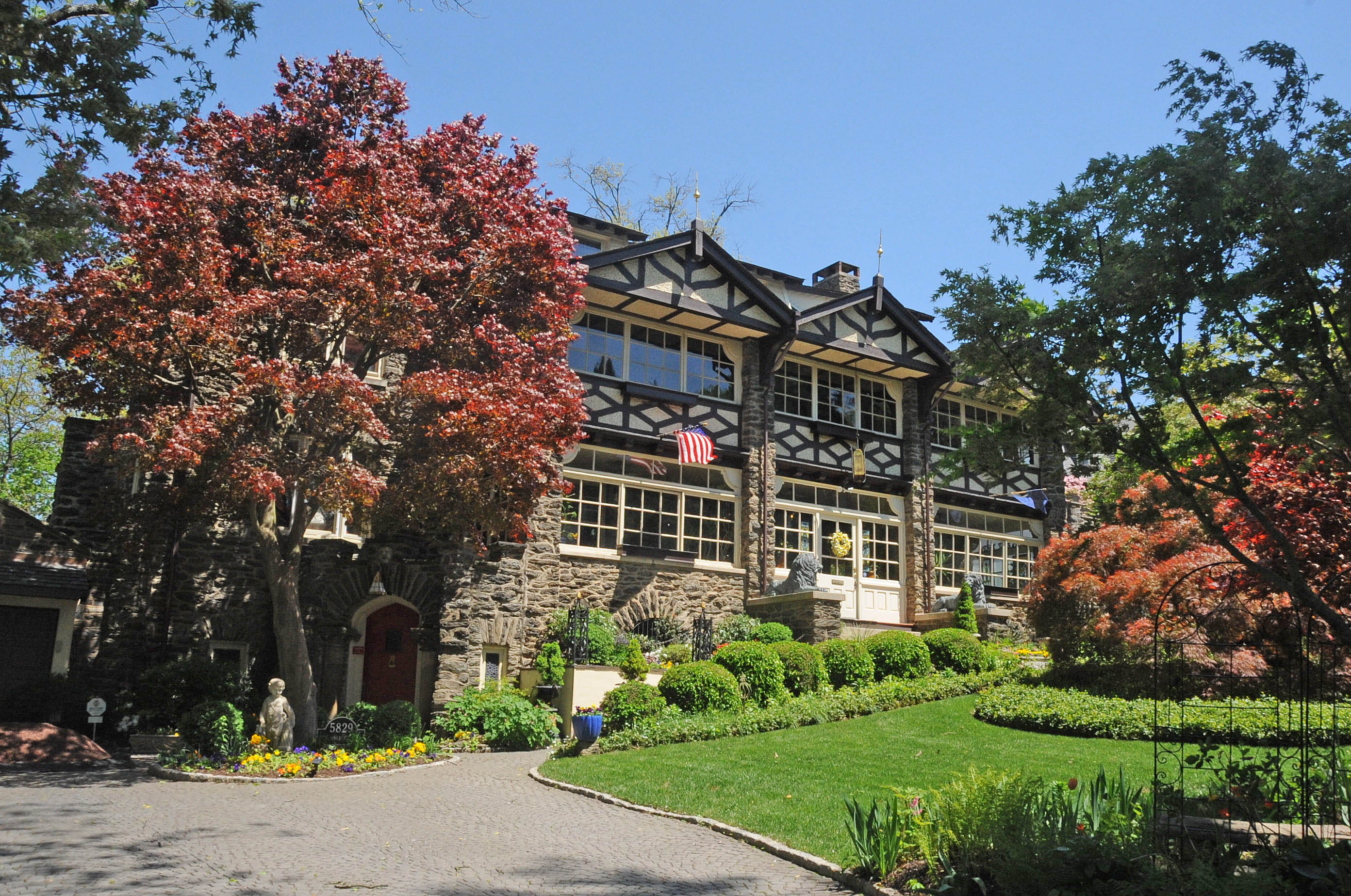 1900 HOME AND STUDIO OF JOSEPH HUSTON (1866-1940) WHO WAS THE ARCHITECT FOR THE PENNSYLVANIA STATE CAPITOL